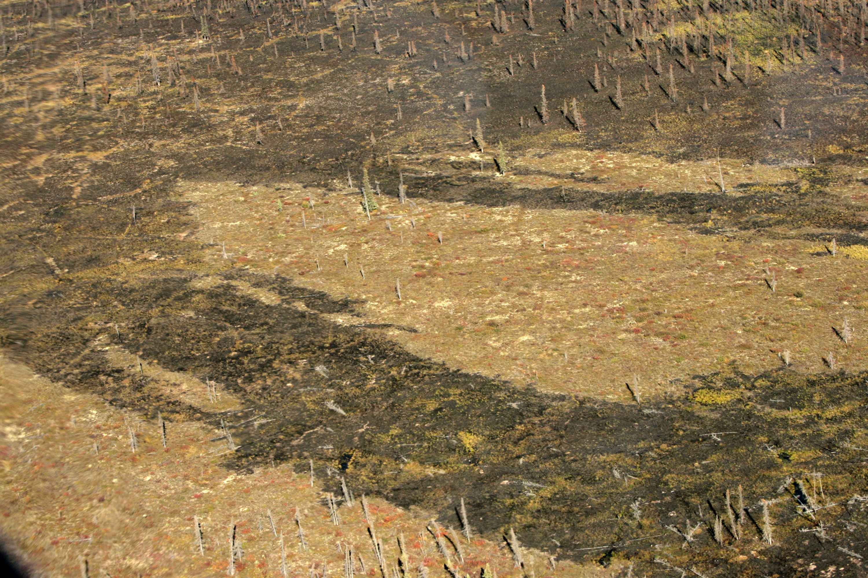 Image title: Tundra and burned areas Image from Public domain images website